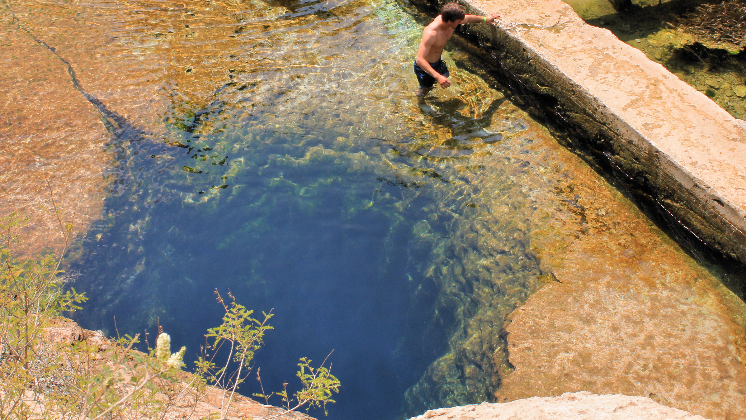 Jacob's Well in Hays County, Texas United States.